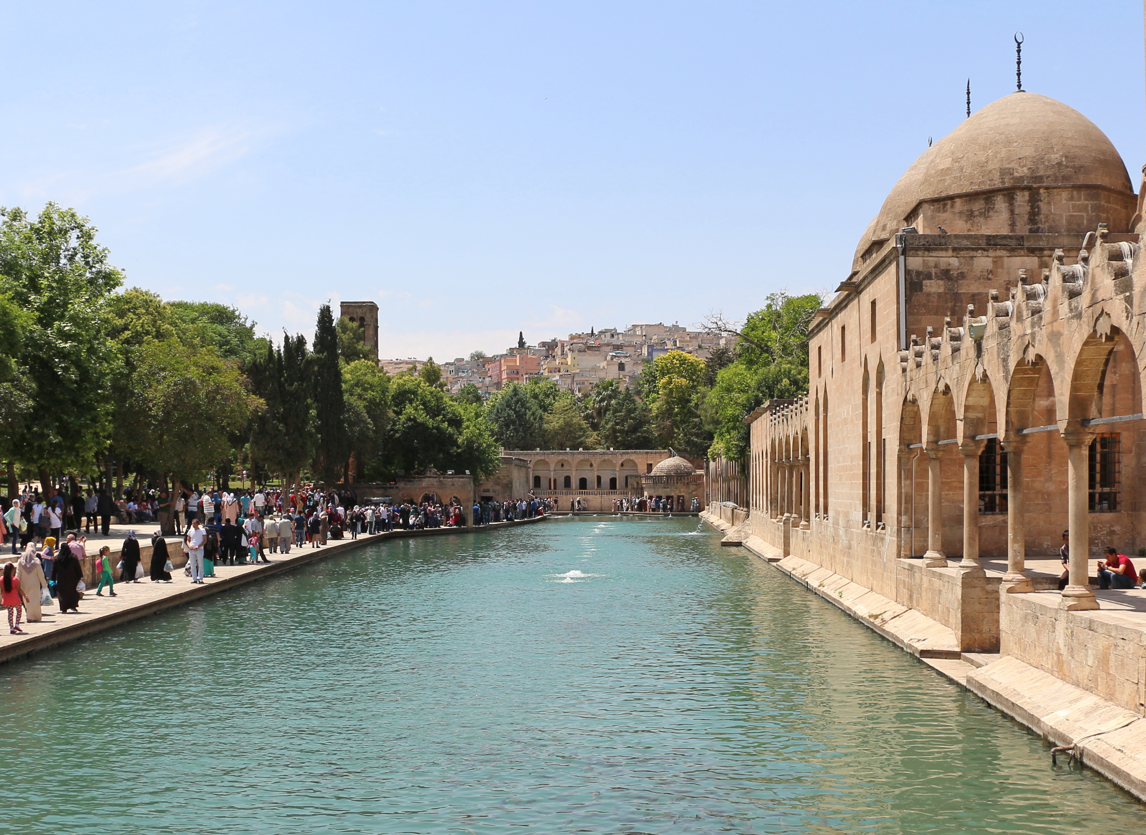 Balikli Göl, Şanlıurfa, Turkey